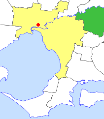 Location of the Shire of Lilydale within outer Melbourne.